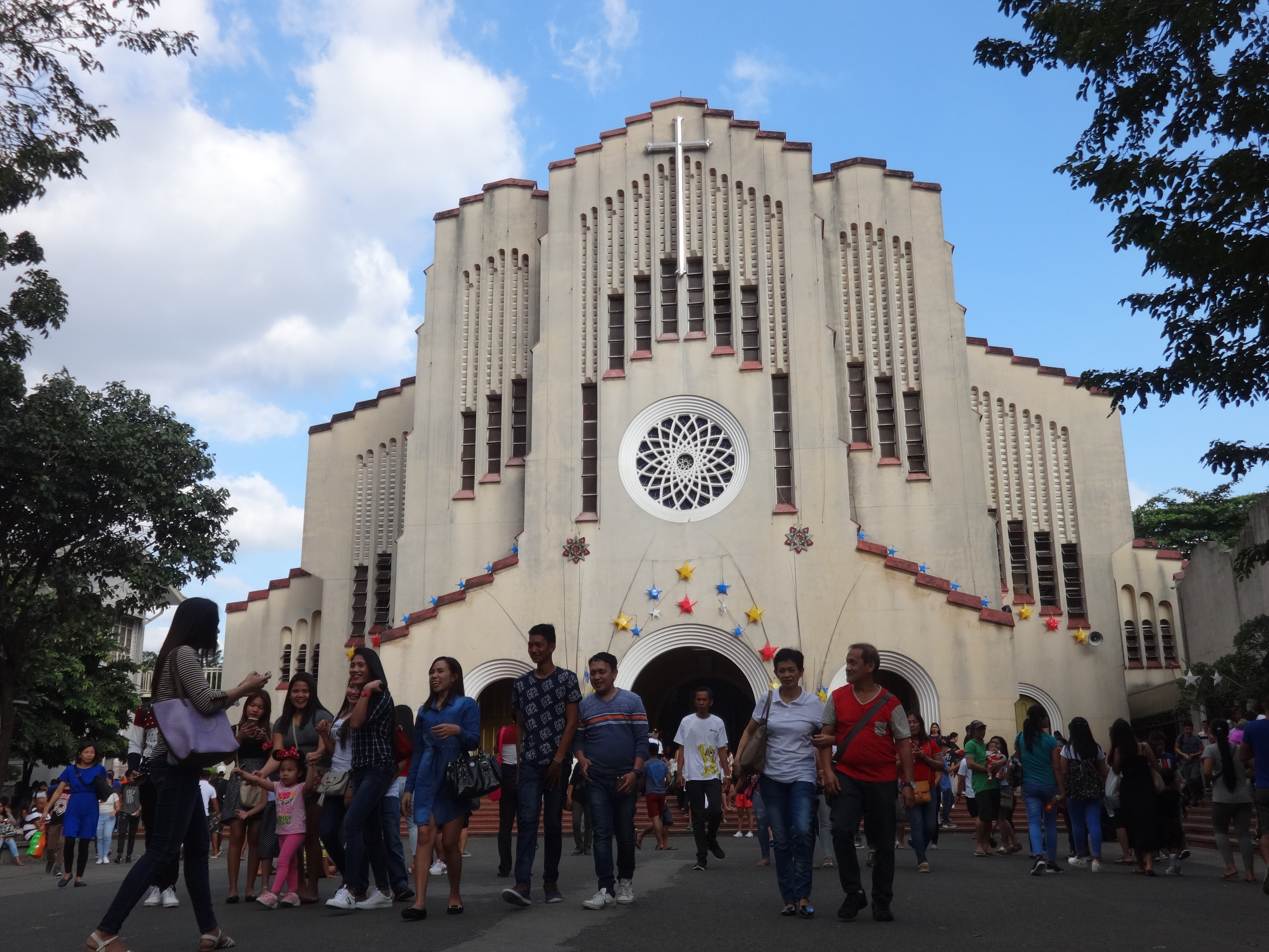 Baclaran Church at Roxas Bulevard corner Redemptorist, Parañaque